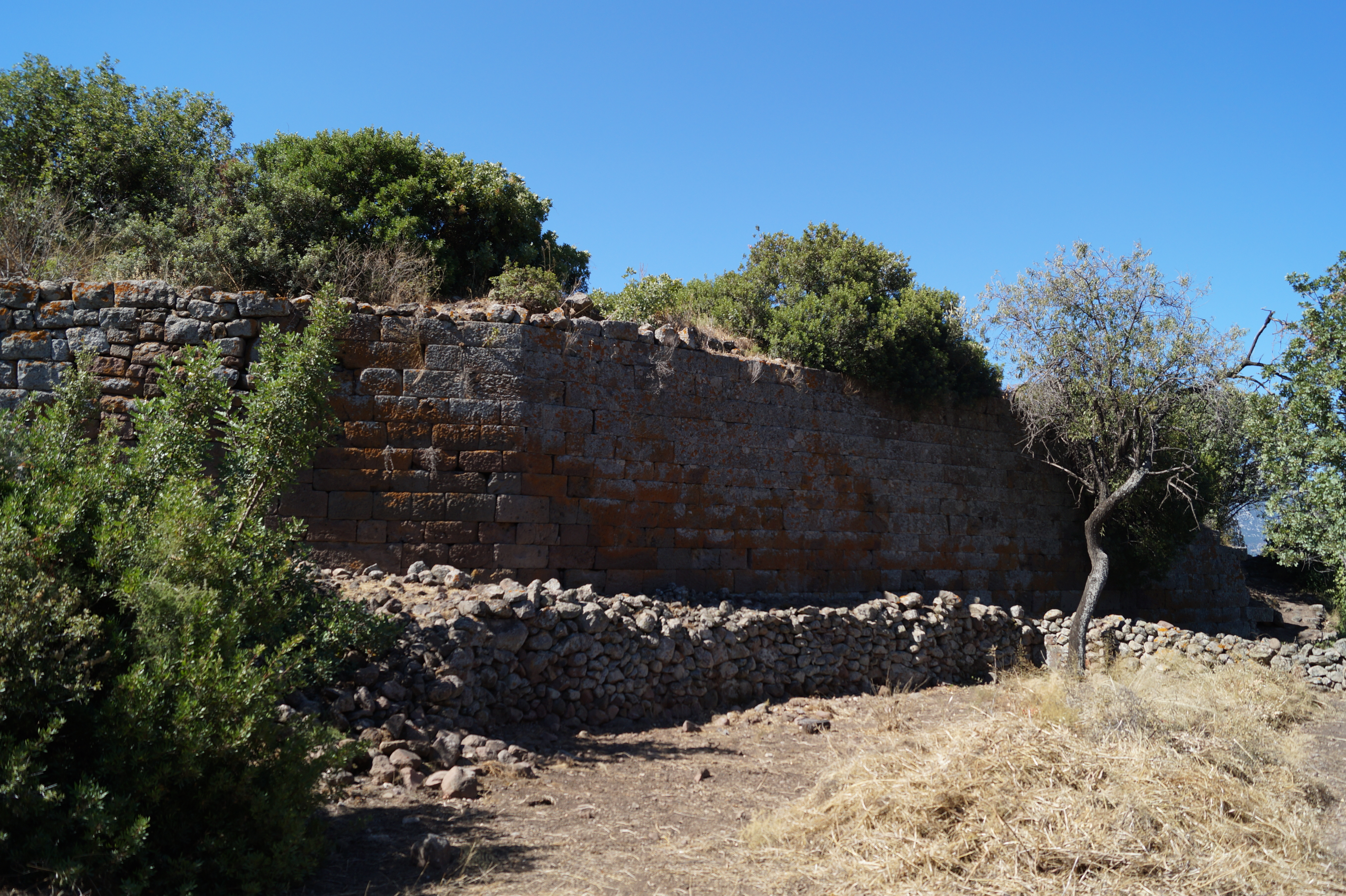 Acropolis Palaiokastro, Methana, Greece: View from the north on the acropolis.